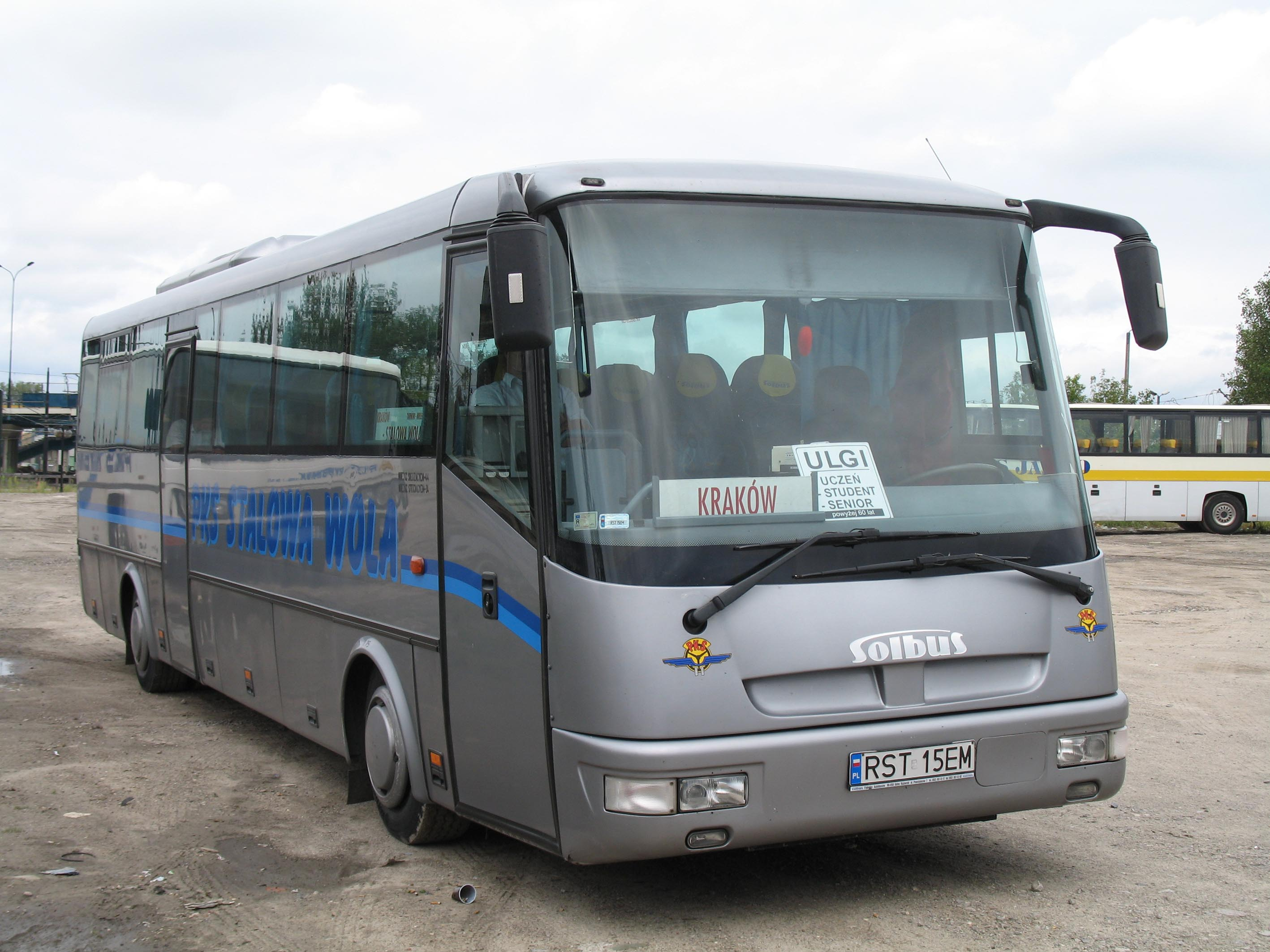 Solbus C 10,5 bus (#SW40626) in Kraków, Poland. Built 2004, PKS Stalowa Wola operator.